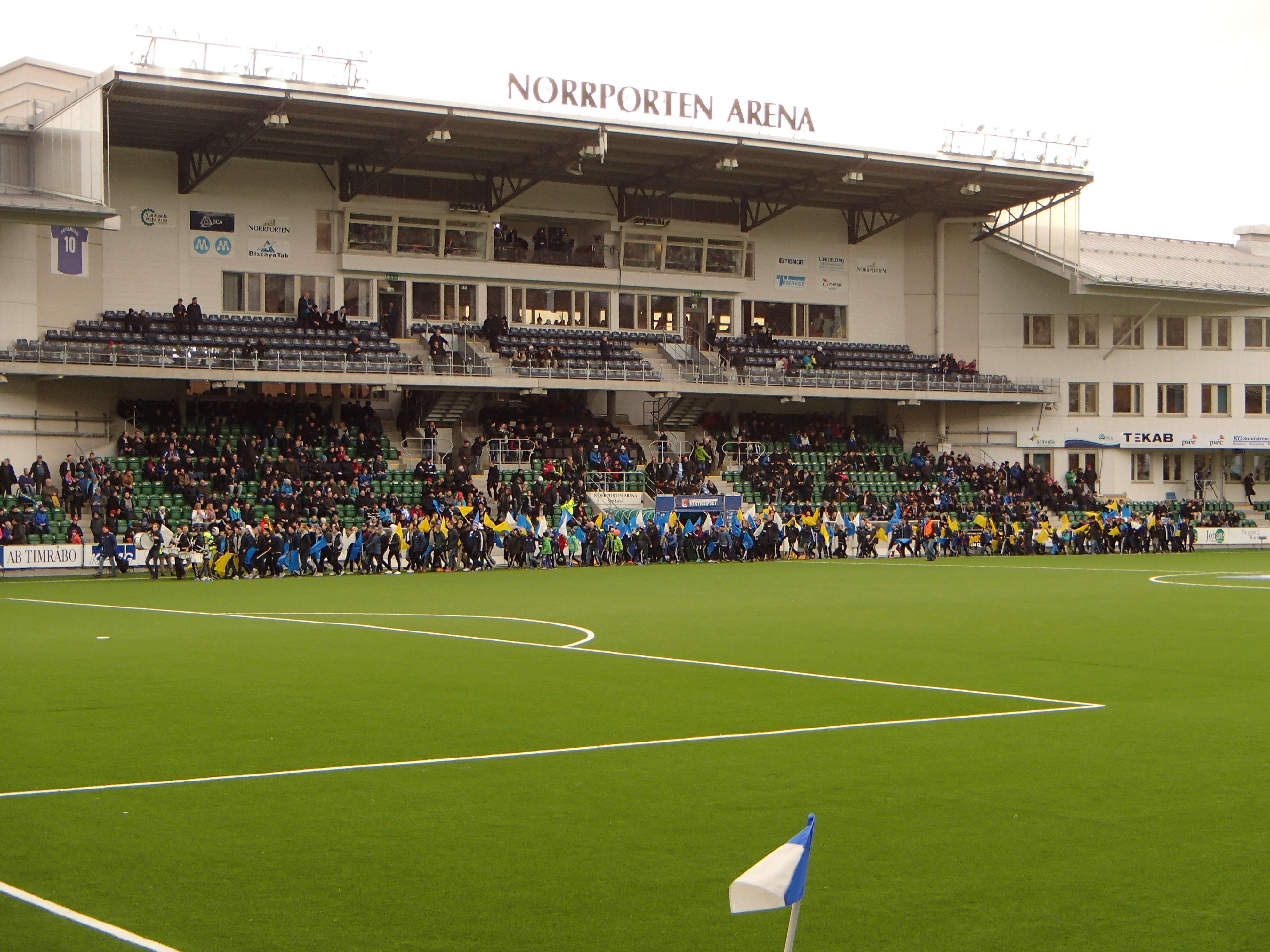 Game night at the football venue of "Norrporten Arena" at Universitetsallén 2-8 in Sundsvall.